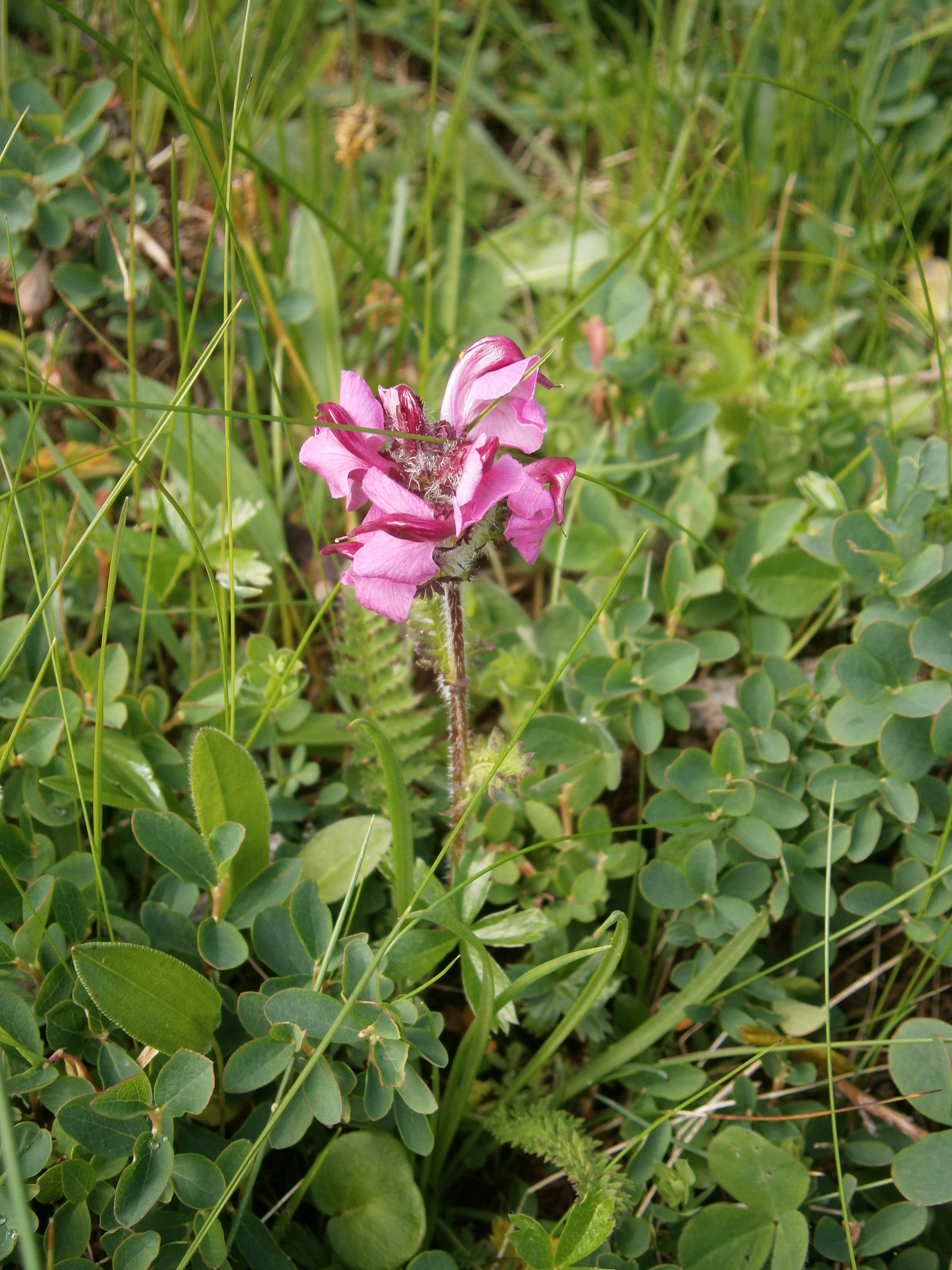 Pedicularis cenisia